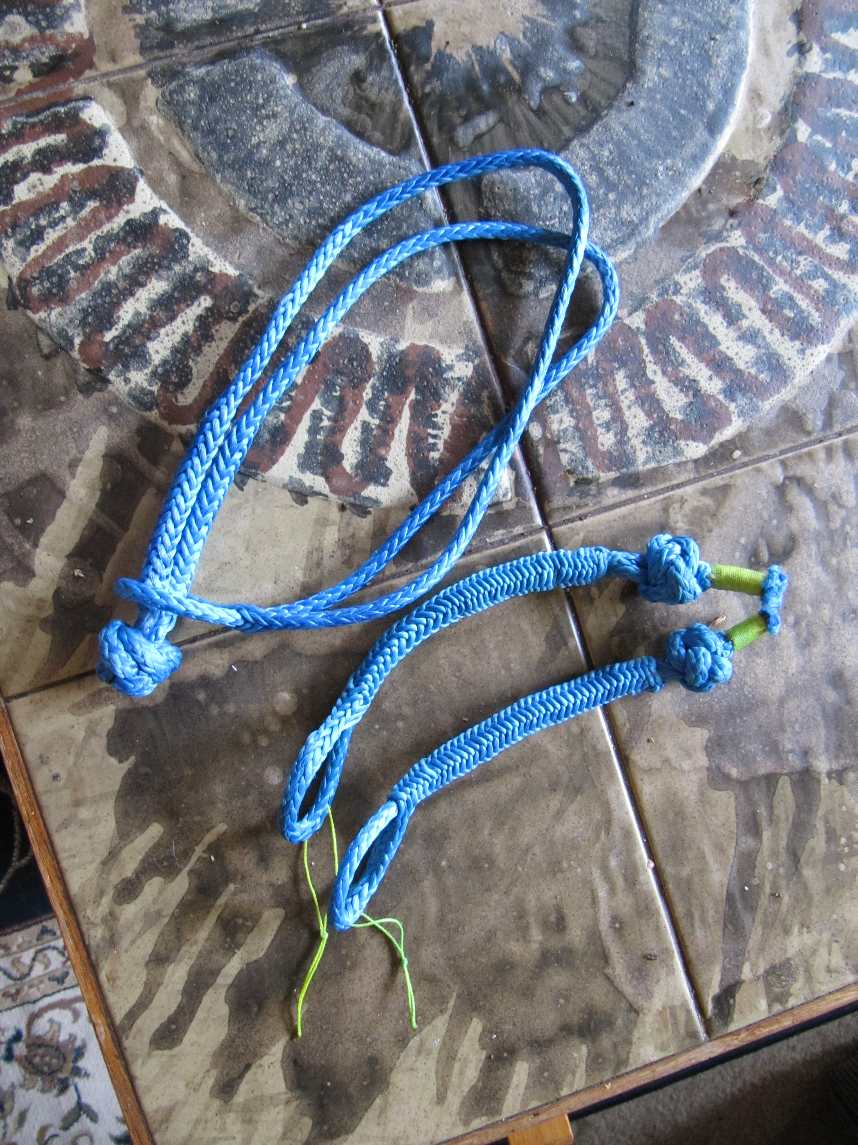 upgrades